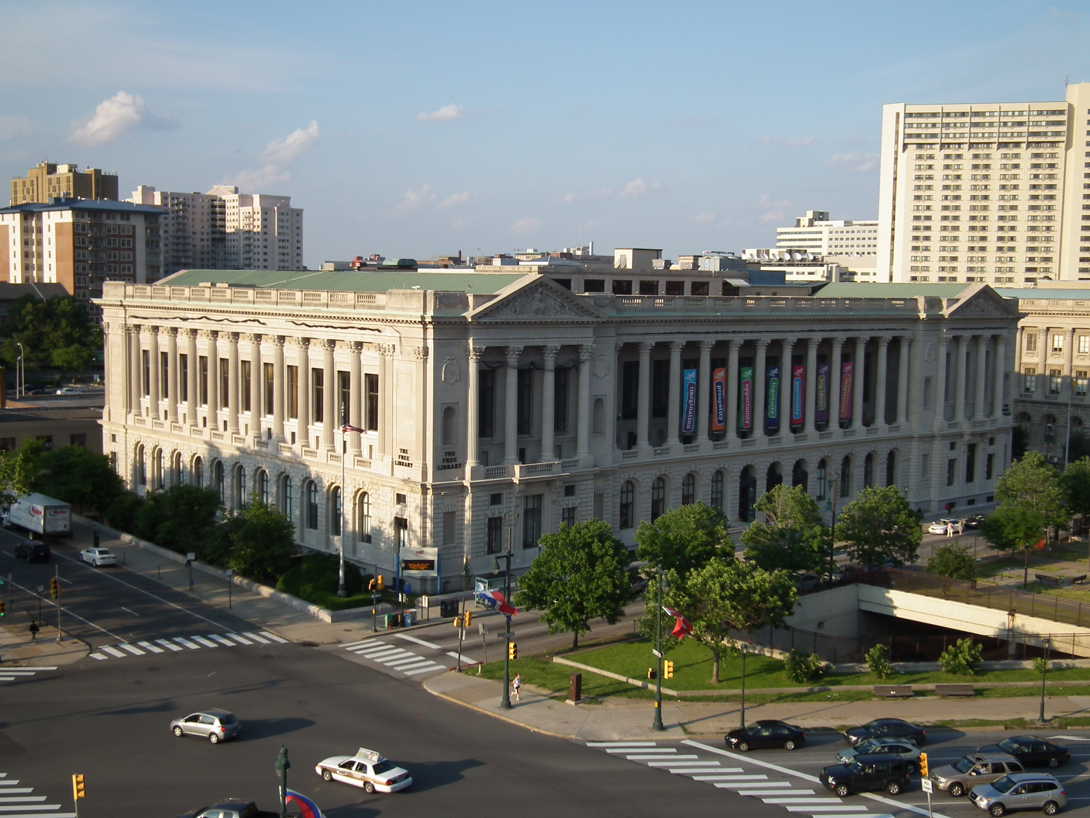 Parkway Central Library, as taken from the Franklin Institute.